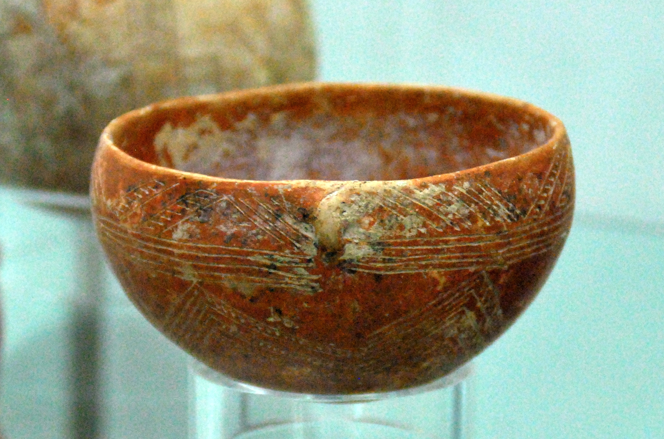 Cypriot vessel of the Red Polished Ware II-III, 2200-1700 BC; Antikensammlung Kiel, inventory number B 959.